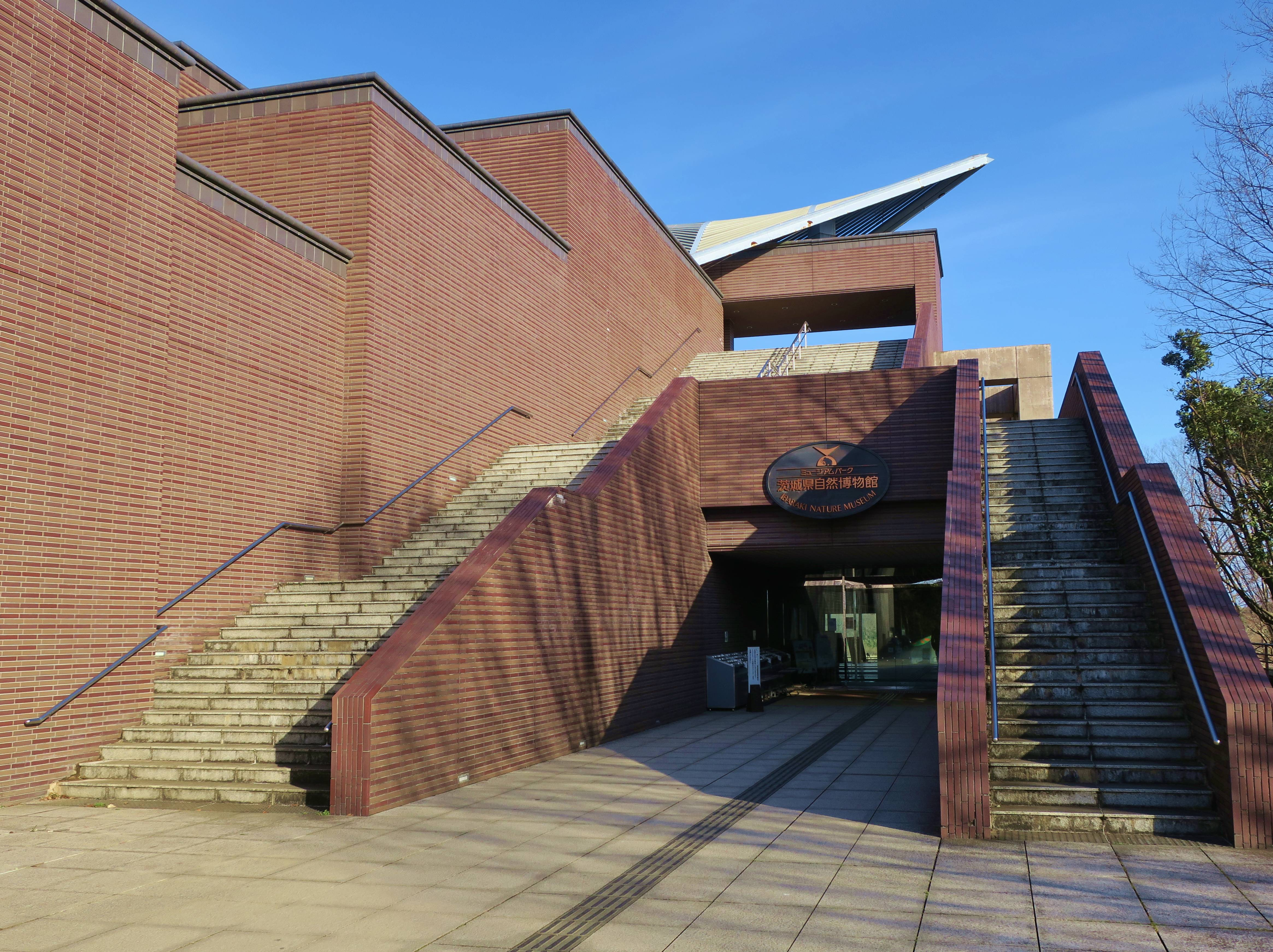 Ibaraki Nature Museum.